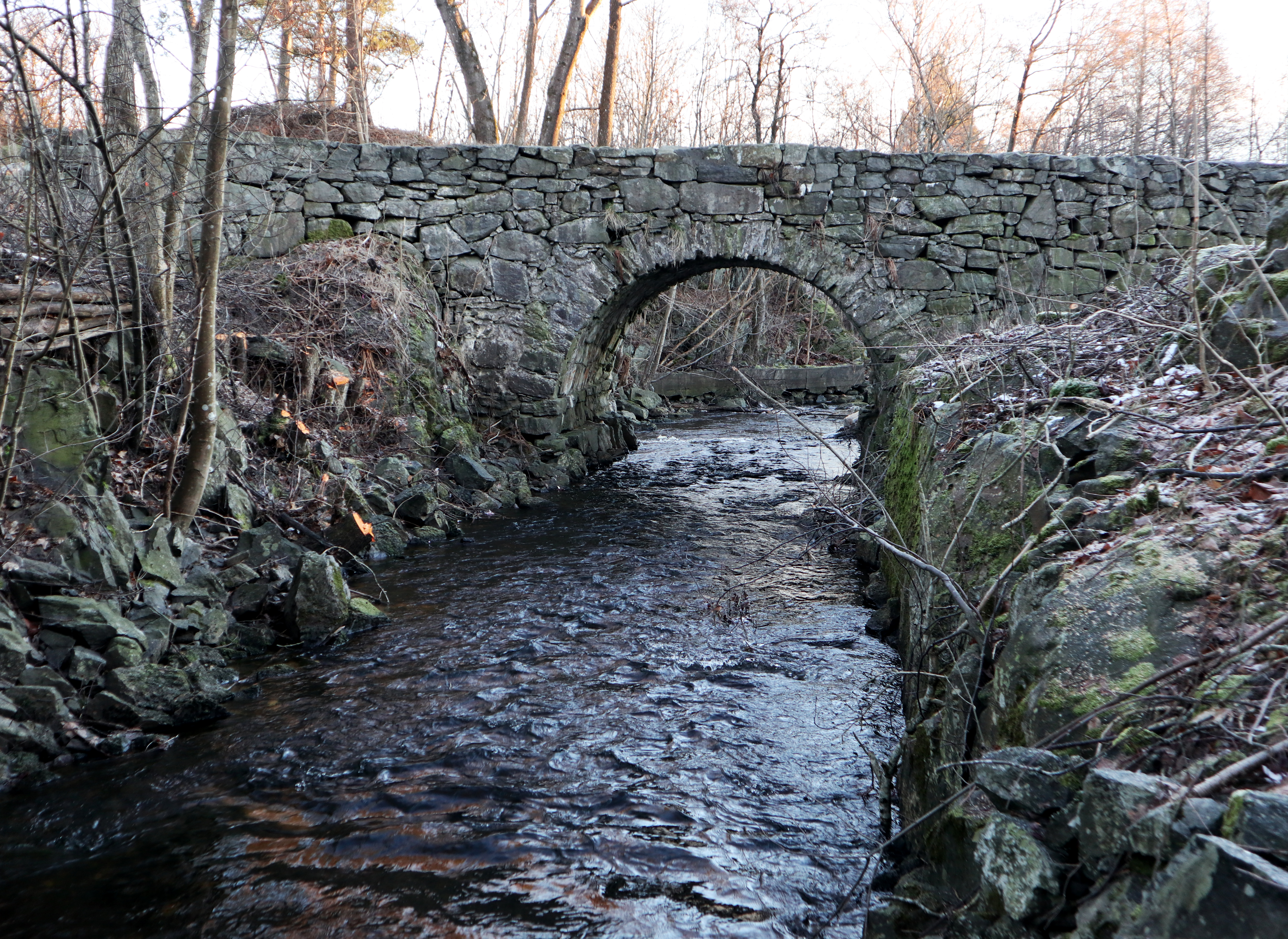 Naude bru på Vestlandske hovedvei